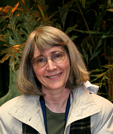 Eugenie Scott, Eugenie C. Scott, Eugenie Carol Scott, Genie Scott